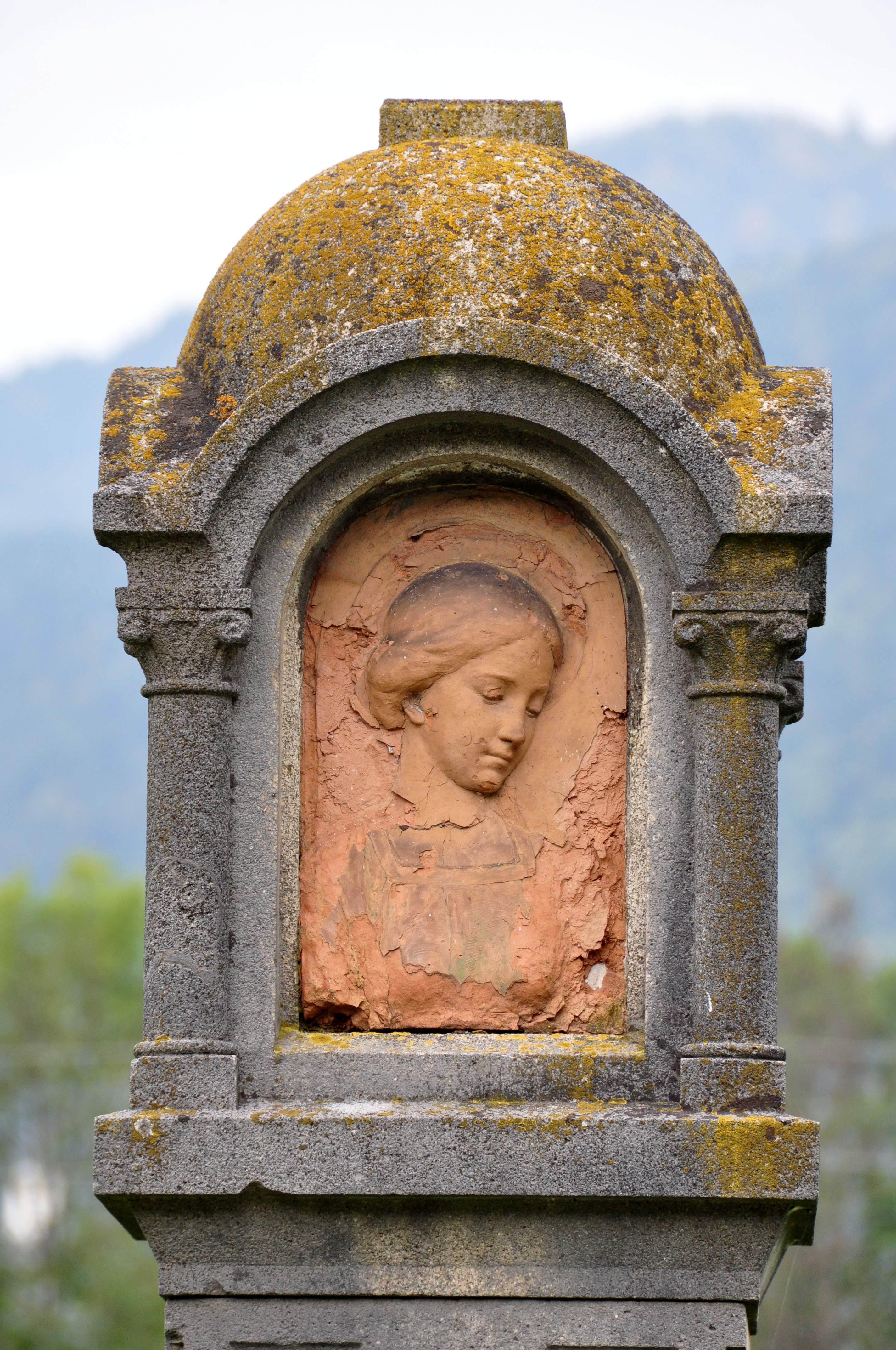 Memorial column for Marie Edle von Burger, who lost her life in this place due to a car accident, next to the hamlet Ratzendorf, market town Maria Saal, district Klagenfurt Land, Carinthia, Austria, EU